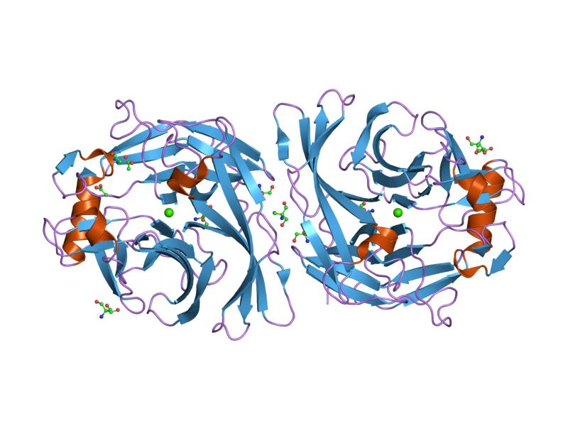 Cartoon representation of the molecular structure of protein registered with 1s18 code.